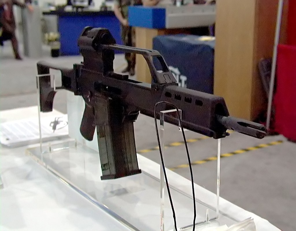 The G36K Select-Fire Carbine sits on display during Modern Day Marine Corps Exposition '97. The G36K can be fired by both left-handed and right-handed personnel with ease.